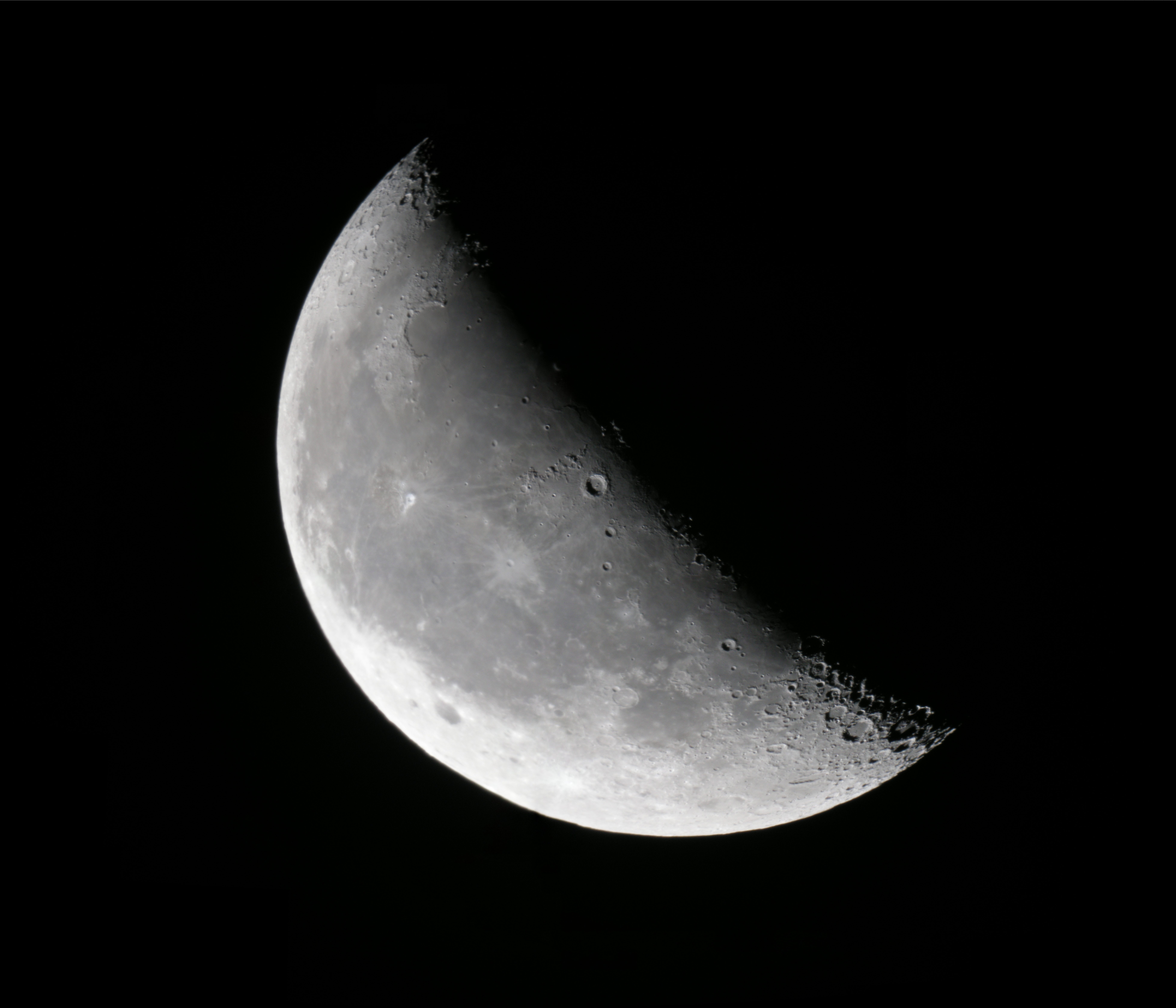 Waning crescent moon. Mosaic of pictures taken with a Nikon Coolpix P5000 put in afocal behind a telescope "Celestron C8" 2000mm focal length equiped with an occular of 40mm focal length.